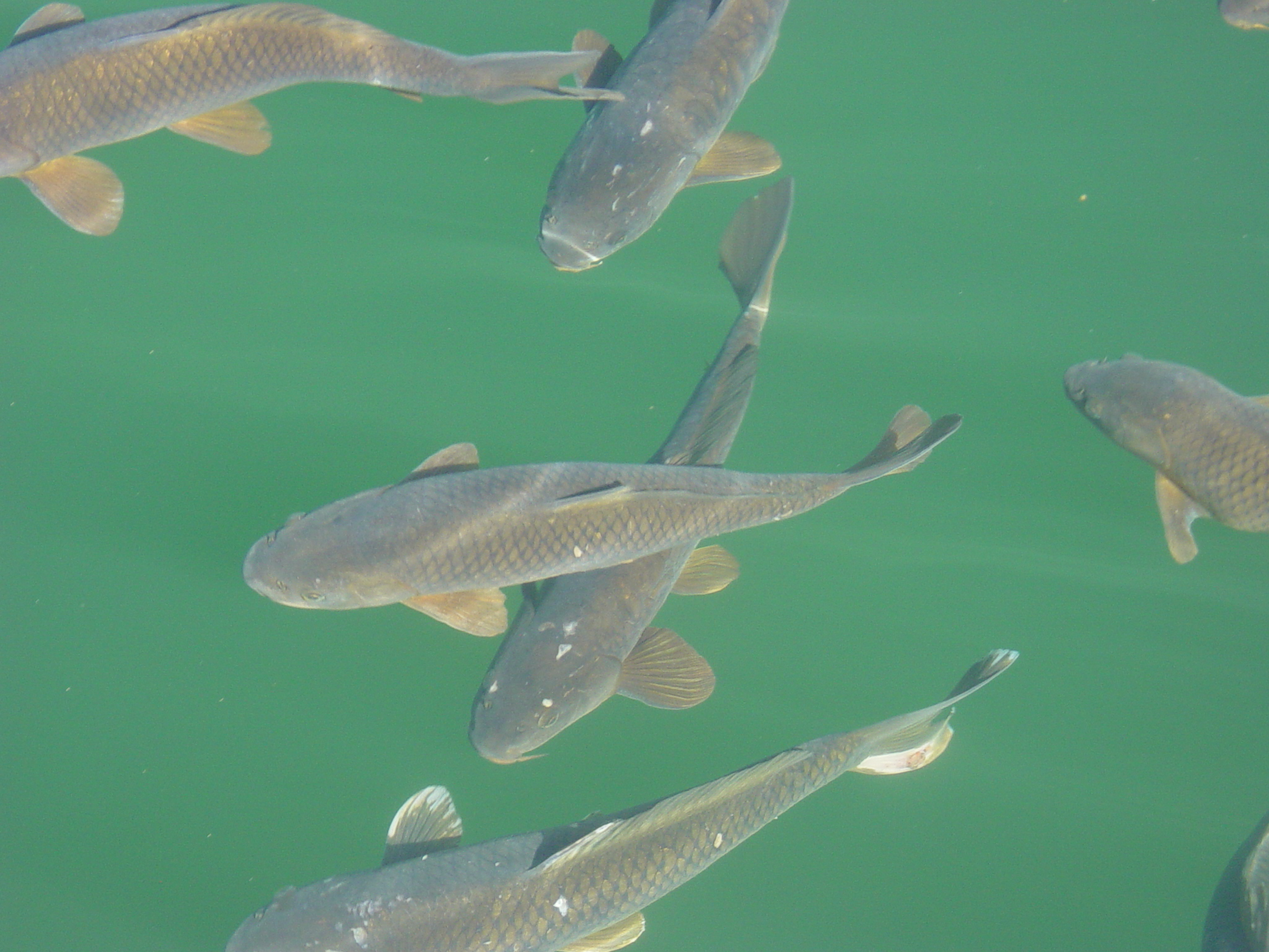 Carp gather near a dock at Wahweap Marina of Lake Powell. Image by User:Leonard G.